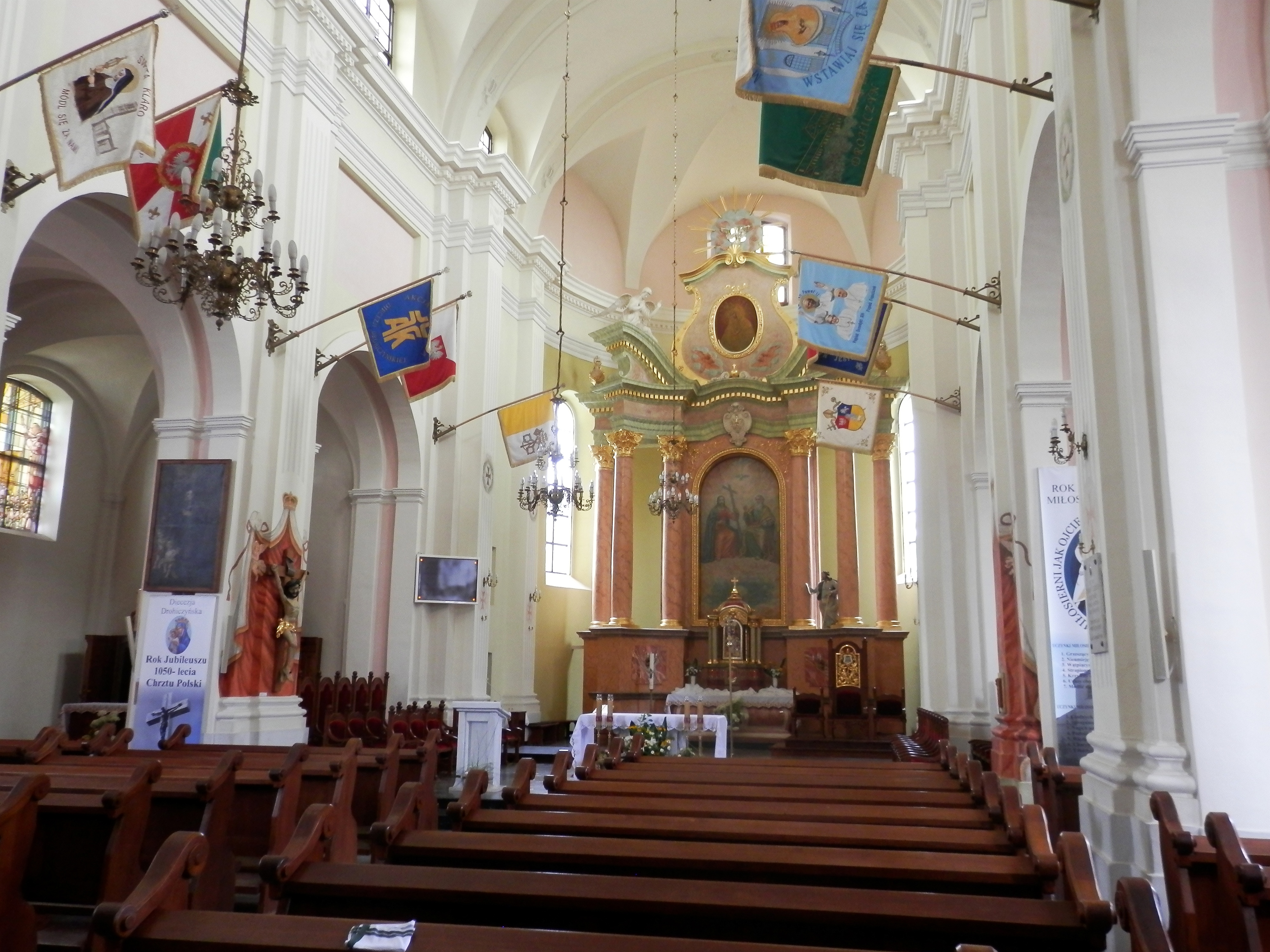 Baroque cathedral in Drohiczyn, Poland